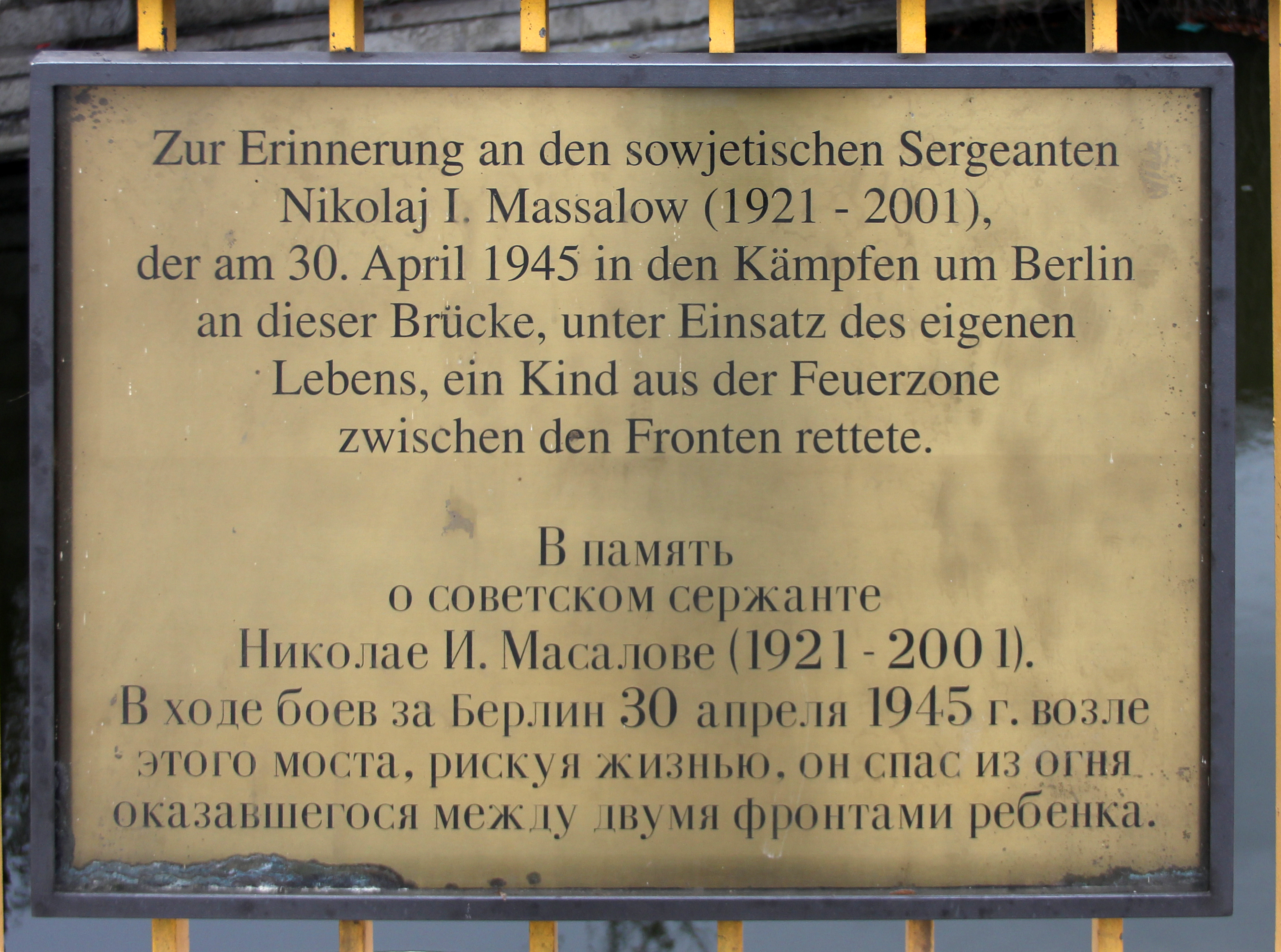 Memorial plaque, Nikolaj Iwanowitsch Massalow, Potsdamer Brücke, Berlin-Tiergarten, Germany